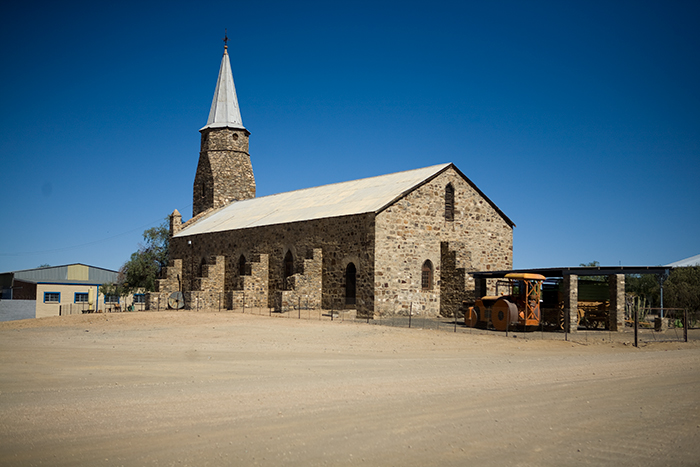 Rhenish Mission Church (1895) in Keetmanshoop, Namibia